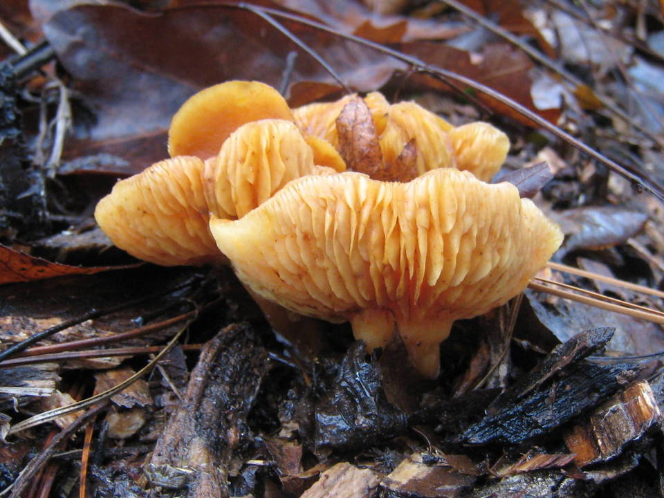 Closeup picture of Gymnopilus sapineus